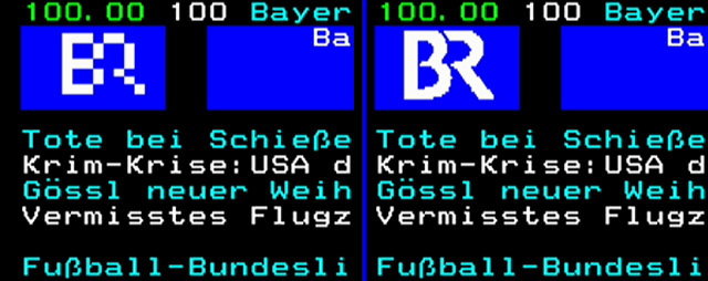 Comparison between Teletext Level 1.0 and Teletext Level 2.5 on German channel BR (detail on logo)